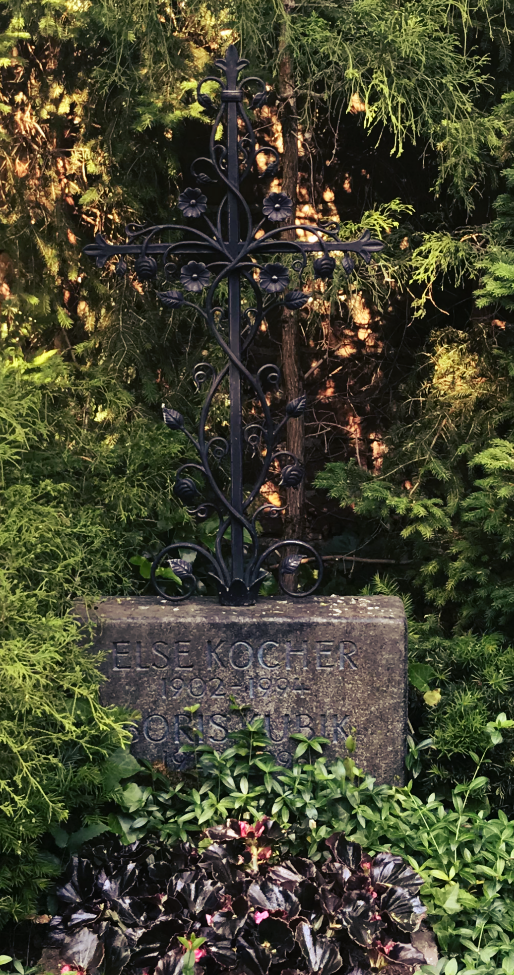 Grave of Else Kocher.